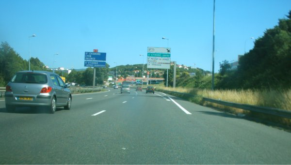 A72 autoroute near . Author: Gregory Deryckère